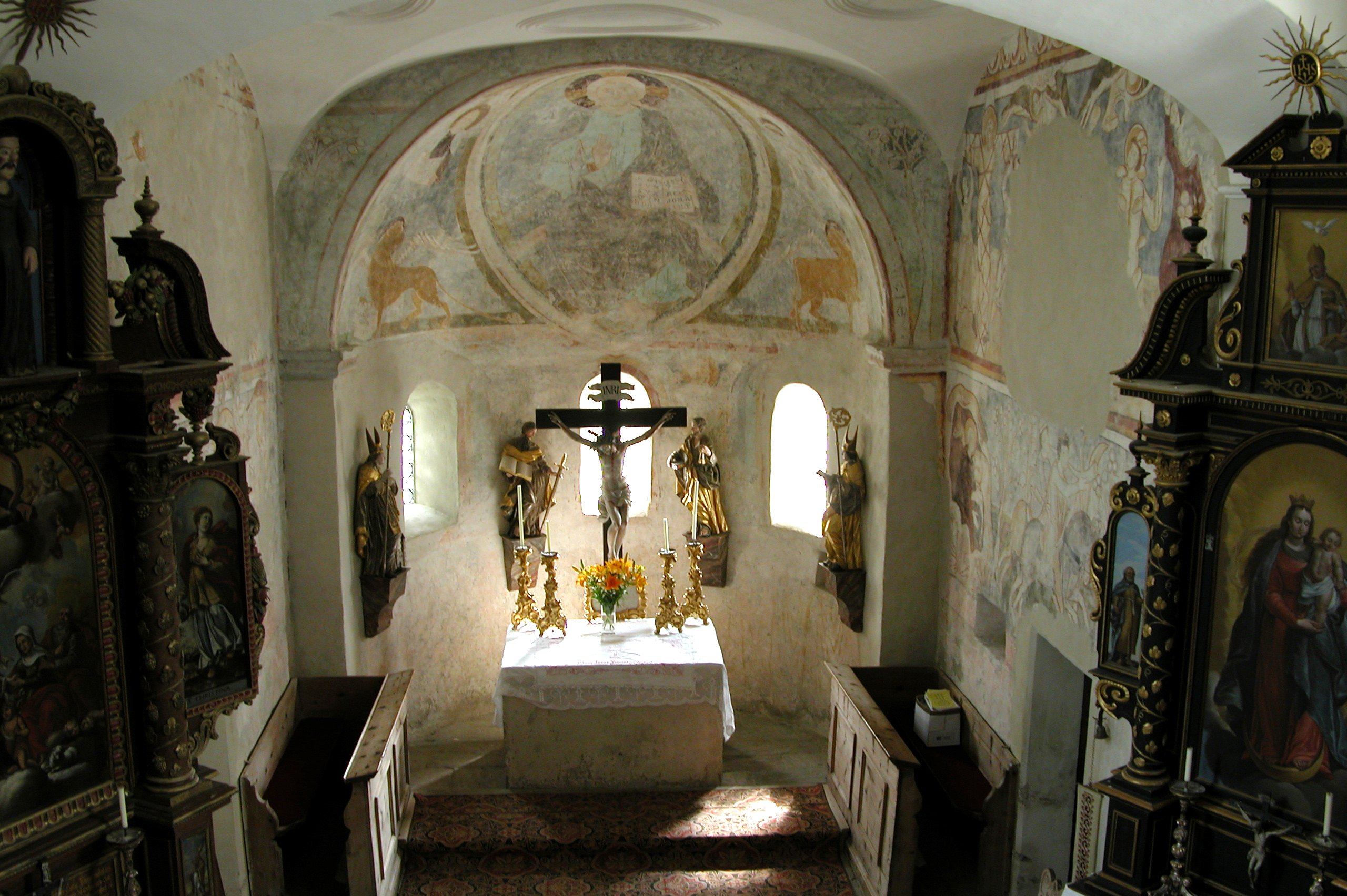 Church St. Rupert in Weißpriach Lungau/Austria - early romanesque church. Byzantine paintings in the apse.